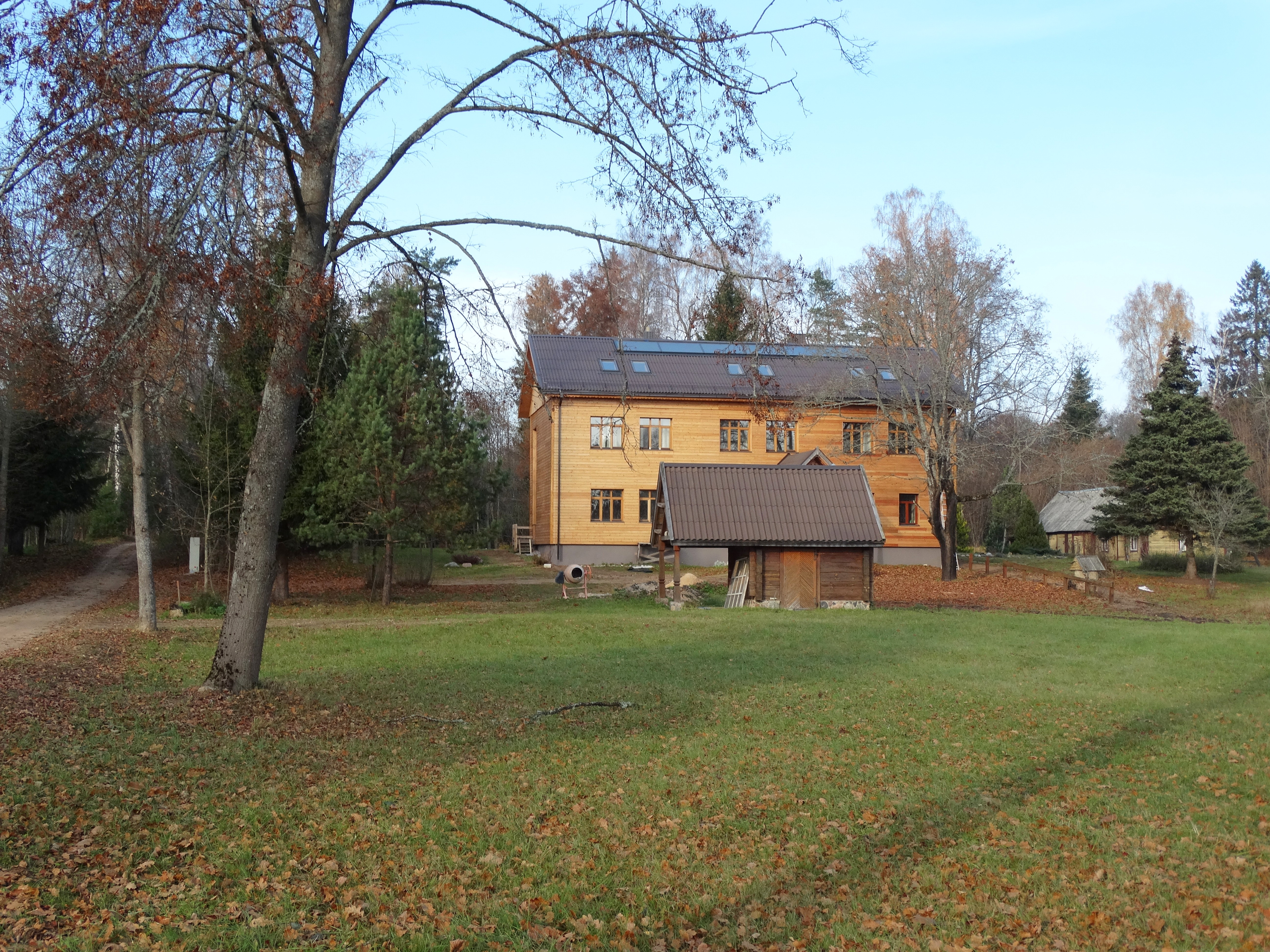 Baltriškės, Zarasai district, Lithuania